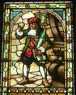 Photo of Perkeo of Heidelberg, taken by Michael Cikraji in 1996.